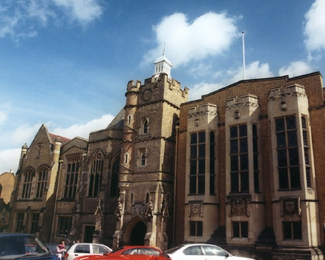 Seat of Learning. A Royal Charter of 1552 established the King Edward VI Grammar School in Stourbridge.(Left). Later it became part of the King Edward VI College and recent addition (Right).